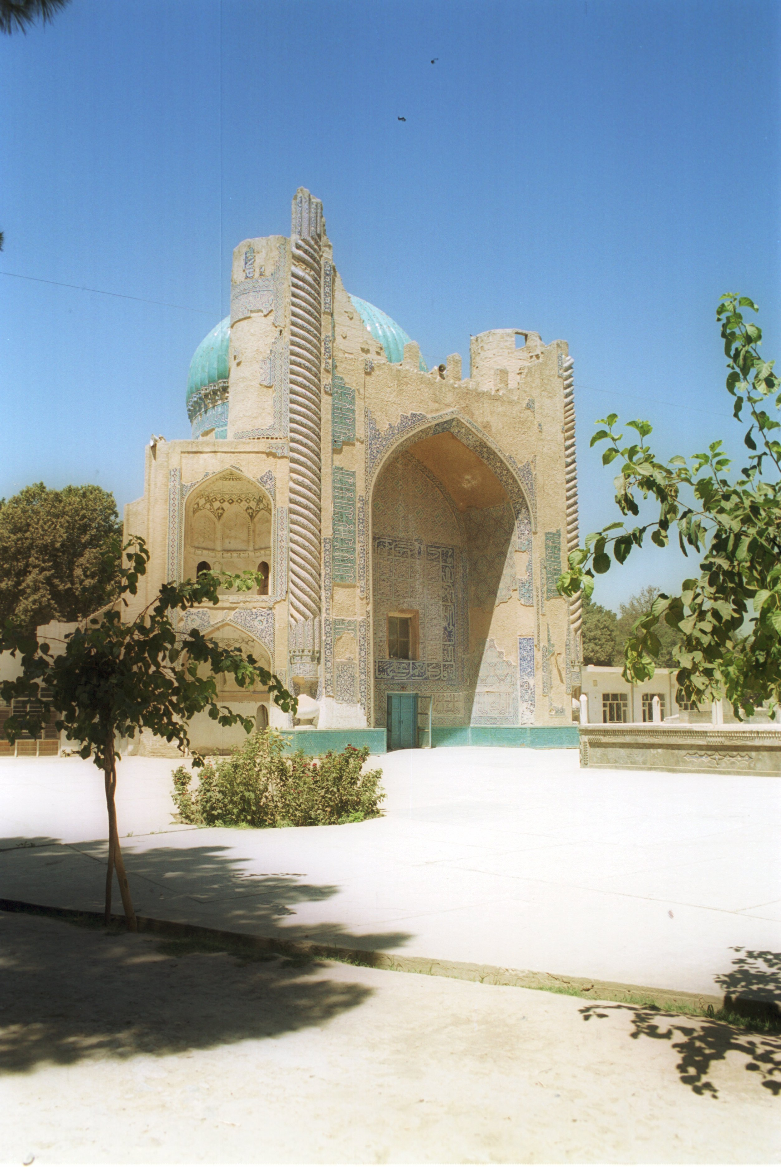 Fifteenth century Green (Sabz) Mosque in Balkh.